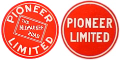 "Drumhead" logos from the Milwaukee Road passenger train the Pioneer Limited. Source: Chicago, Milwaukee, St. Paul and Pacific Railroad